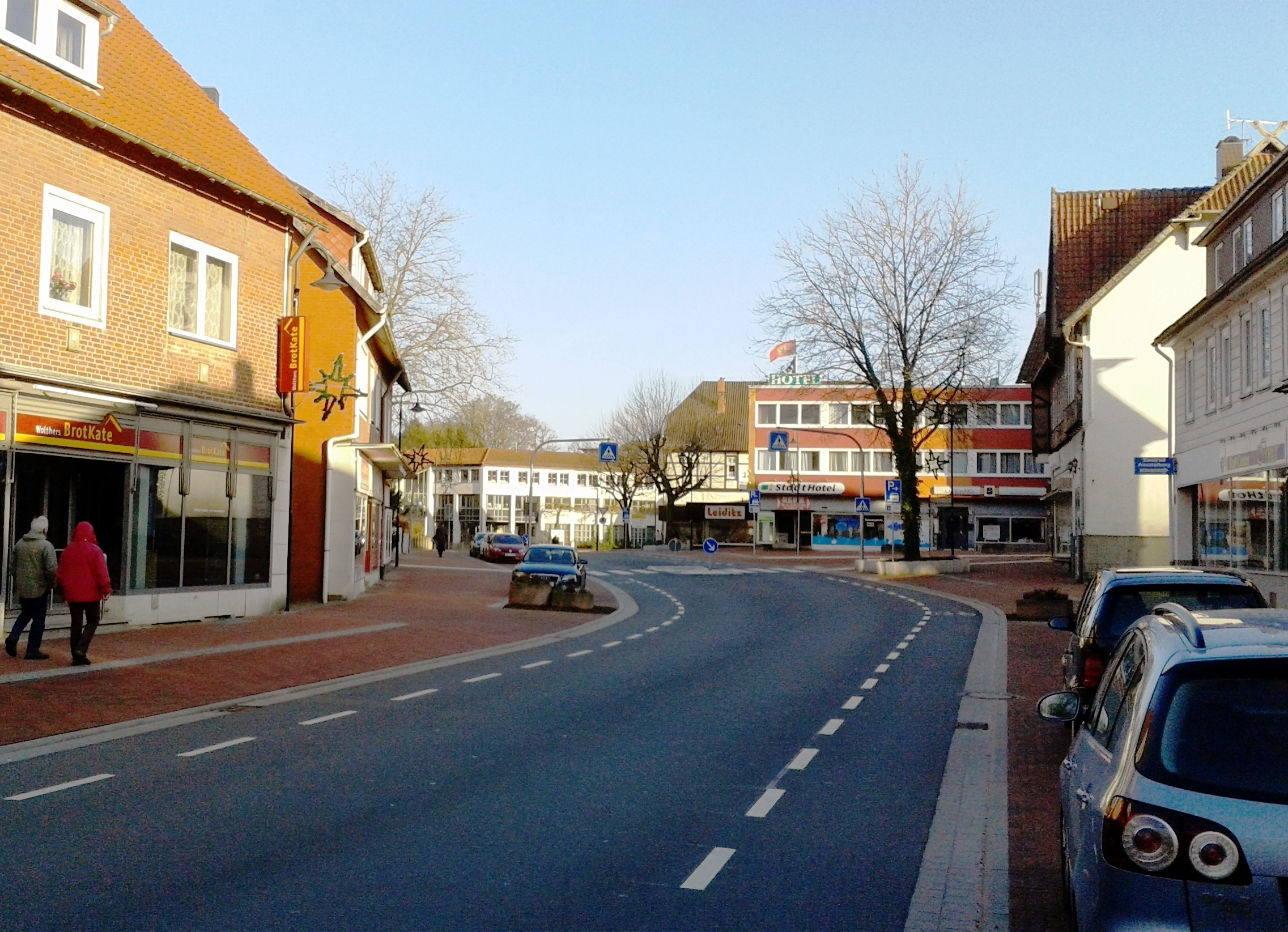 Bad Fallingbostel, Lower Saxony, Germany, Midtown